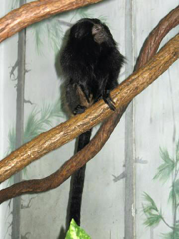 Black Lion Tamarin in Prospect Park Zoo.